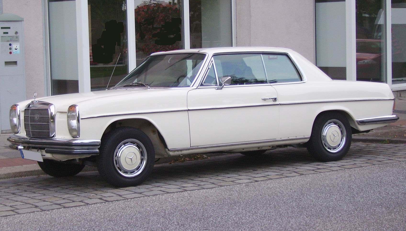 A Mercedes-Benz 250 Coupé with quarter front windows